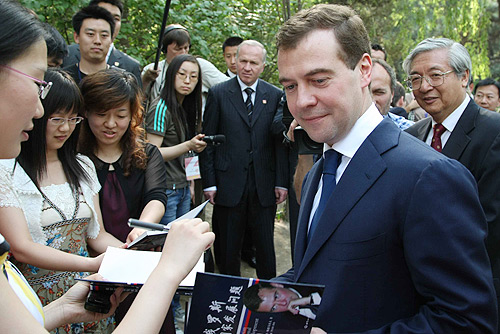 BEIJING. With students of Beijing University.